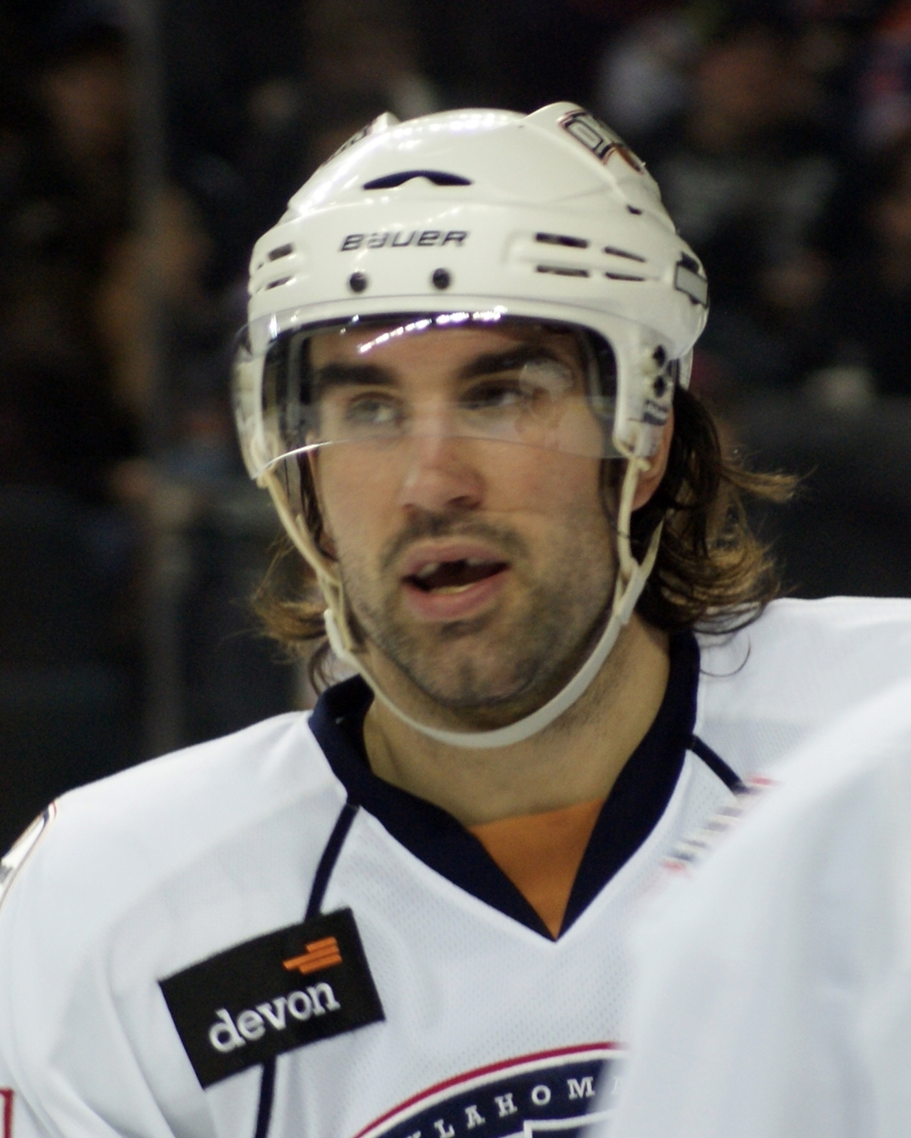 Zack Stortini, born September 11, 1985 in Elliot Lake, Ontario, is a Canadian professional ice hockey forward. He was selected by the Edmonton Oilers in the 3rd round, 94th overall, of the 2003 NHL Entry Draft. He has played in the National Hockey League (NHL) with the Edmonton Oilers. Photo was taken on February 18, 2011 during an American Hockey League (AHL) regular season game.